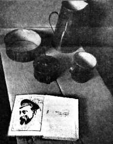 Cell in Orel's Tsentral (prizon) in Russia.